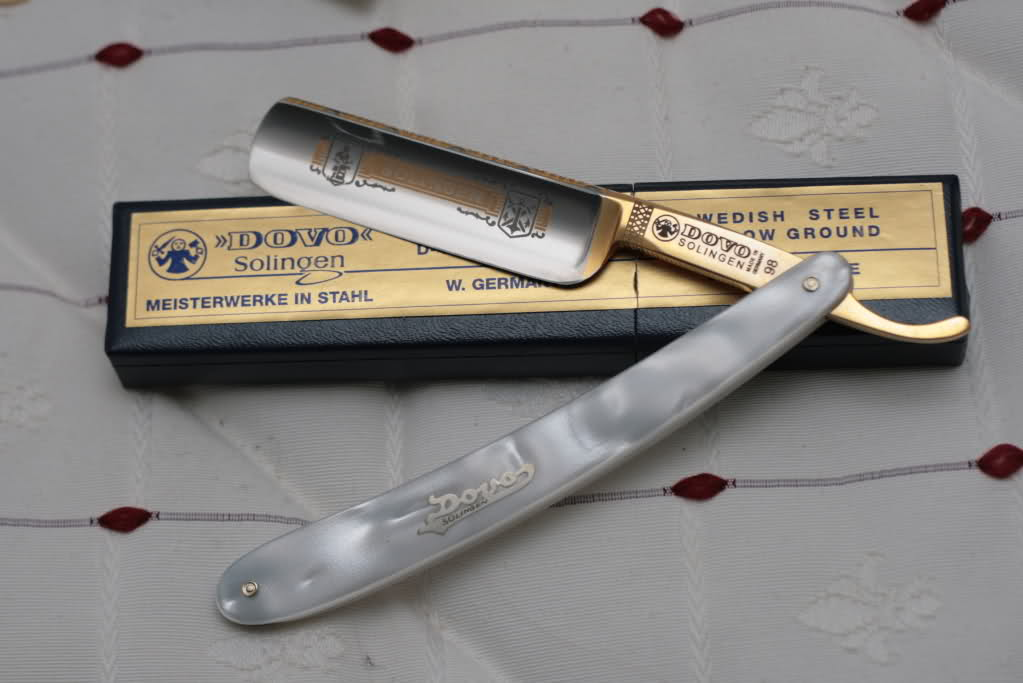 Razor with faux mother of pearl handle.